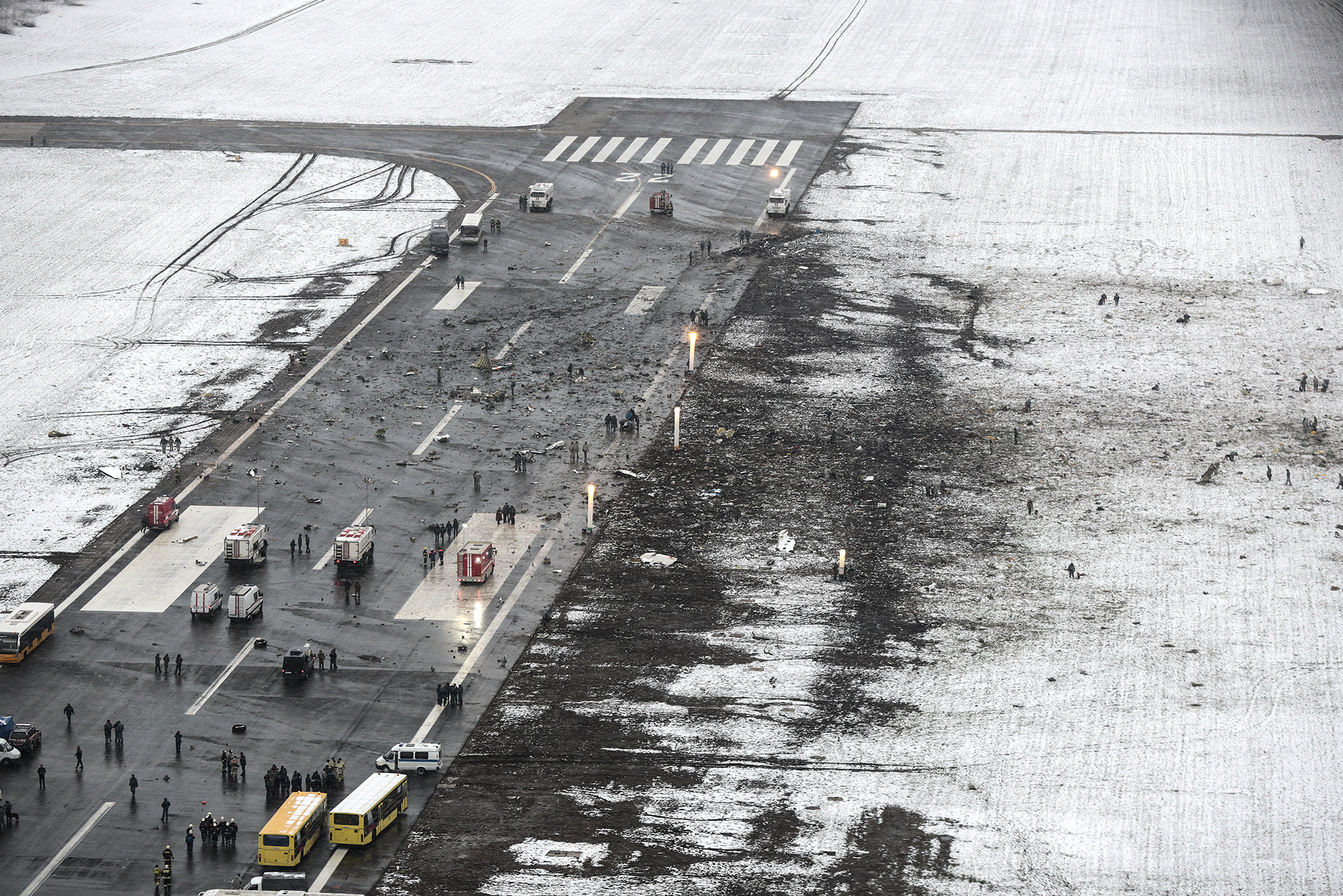 Aerial view of the crash site of Flydubai Flight 981 (Rostov-on-Don, Russia)